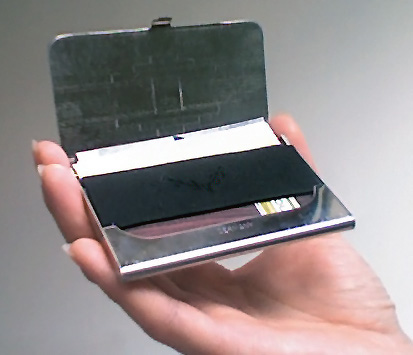 Business card case enclosure